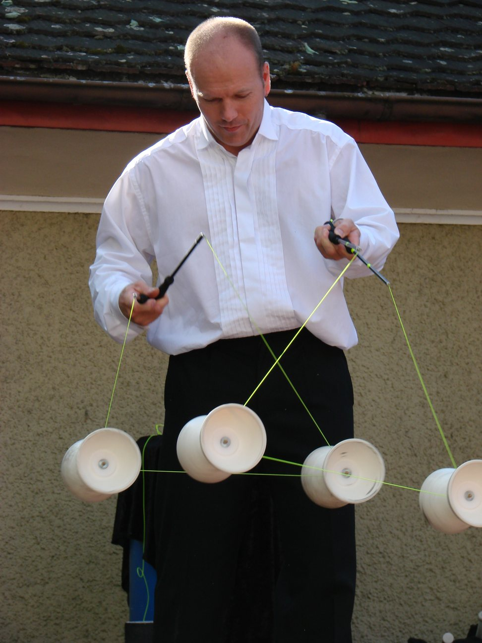 Diabolo player Stefan Zimmermann from Germany at Gauklerfestival Lenzburg (Switzerland)